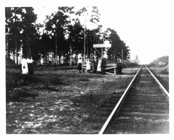 Members of the Sandvik and Leivonen families waiting for train - Haile, Florida